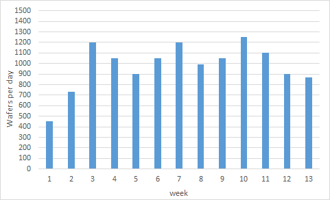 The weekly average wafer throughput for the ASML EUV tool is shown over the course of 13 weeks. Ref.